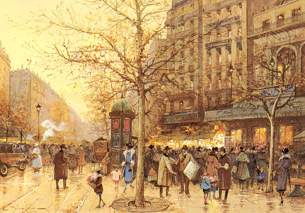 A Paris Street Scene